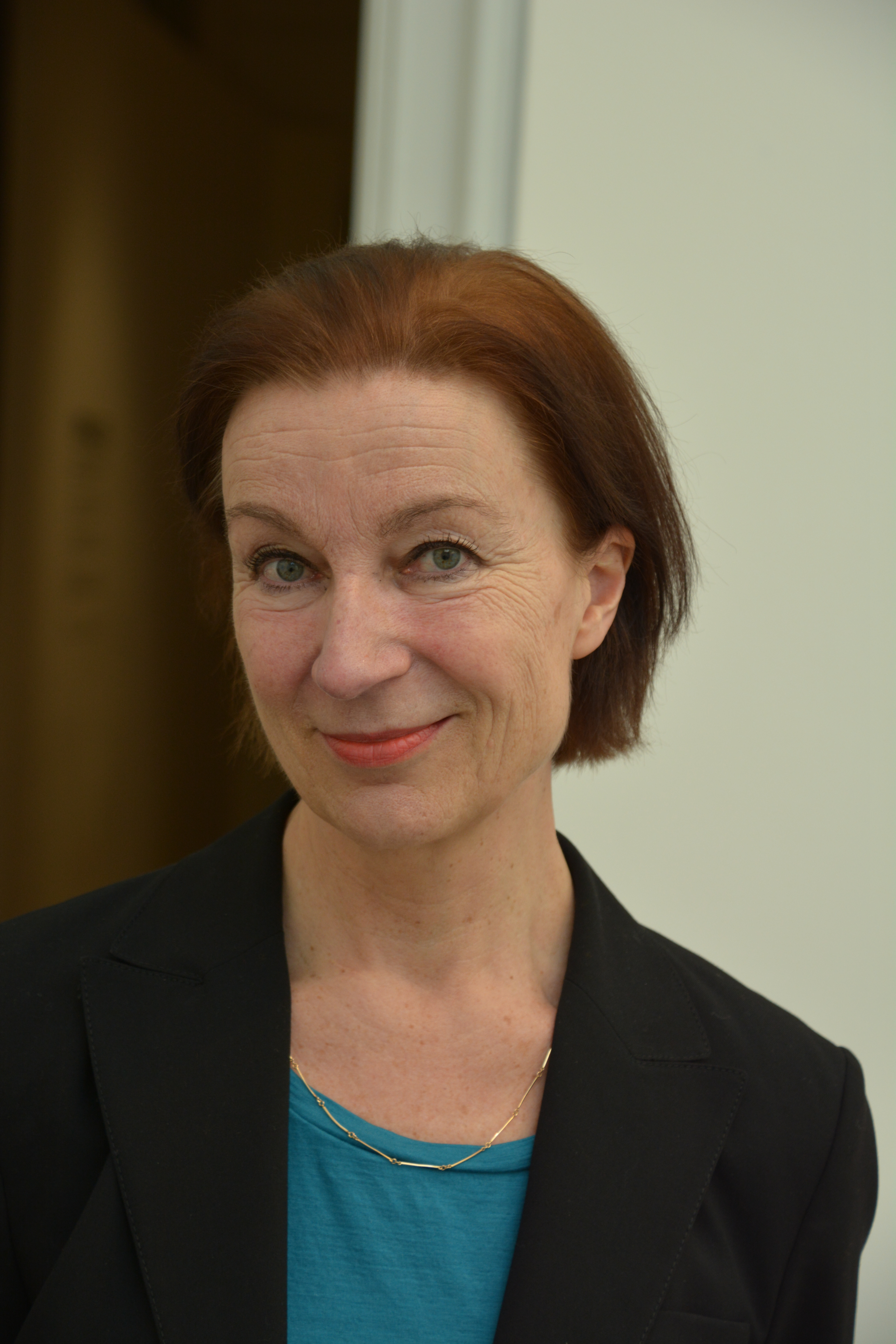 Sonja Larsson, Swedish artist